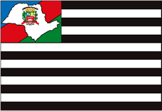 Flag of São Paulo's Cachoeira Paulista city, Brazil.